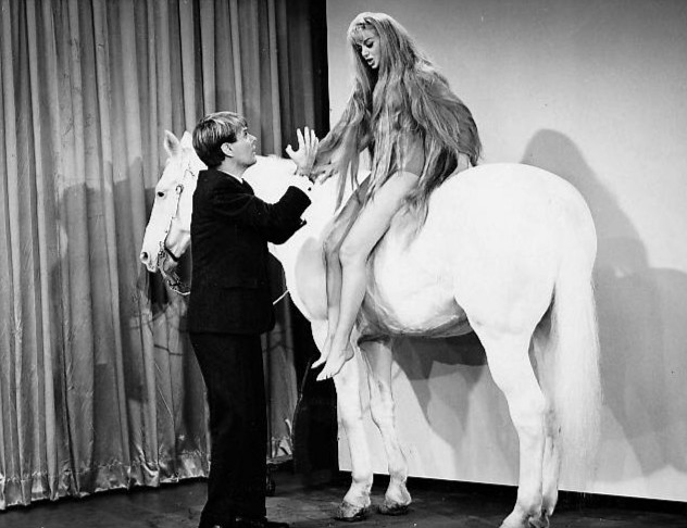 Photo from the television program Hey Landlord. Pictured are Will Hutchins and Chanin Hale.